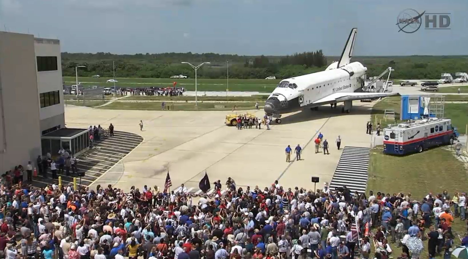 Atlantis welcome home ceremony outside the OPF July 22